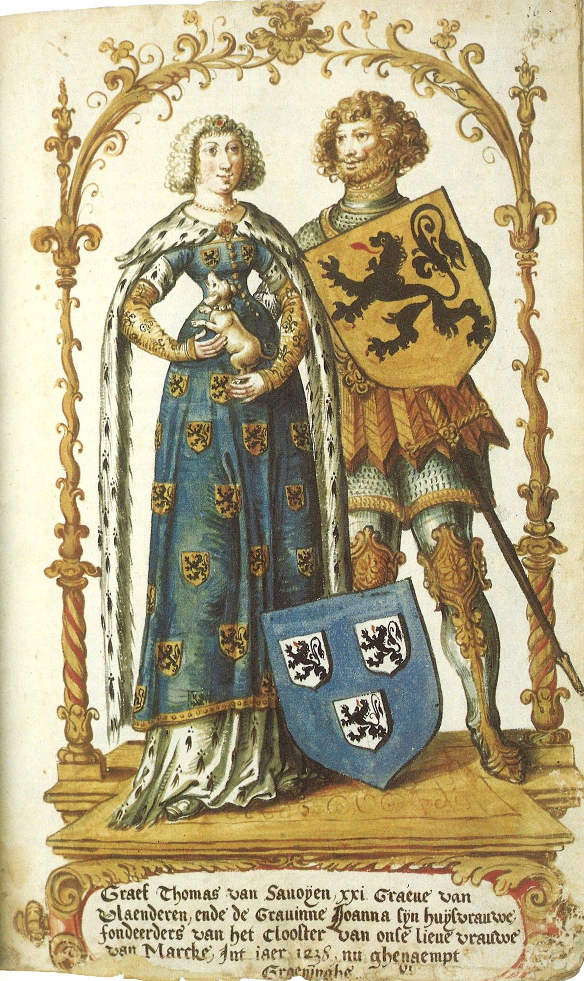 Joan of Constantinople with her husband, Thomas of Savoy